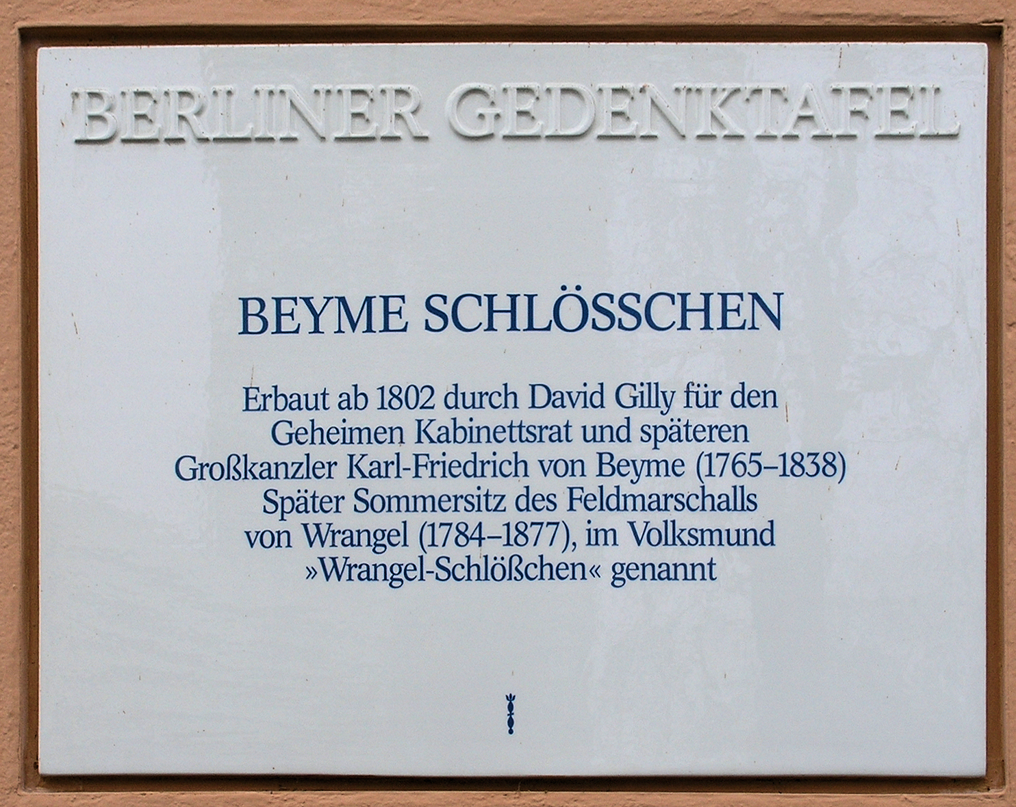 Berlin memorial plaque, Wrangelschlösschen, Schloßstraße 48, Berlin-Steglitz, Germany Koordinate:52°27′17″N 13°19′5″E / 52.45472°N 13.31806°E